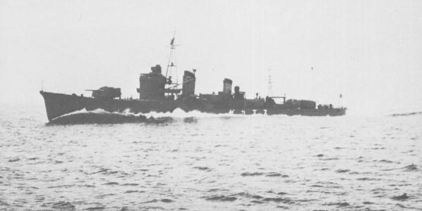 Imperial Japanese Navy destroyer Suzukaze (Shiratsuyu-class) on trial run at Uraga Channel. She is completed on August 31, 1937.